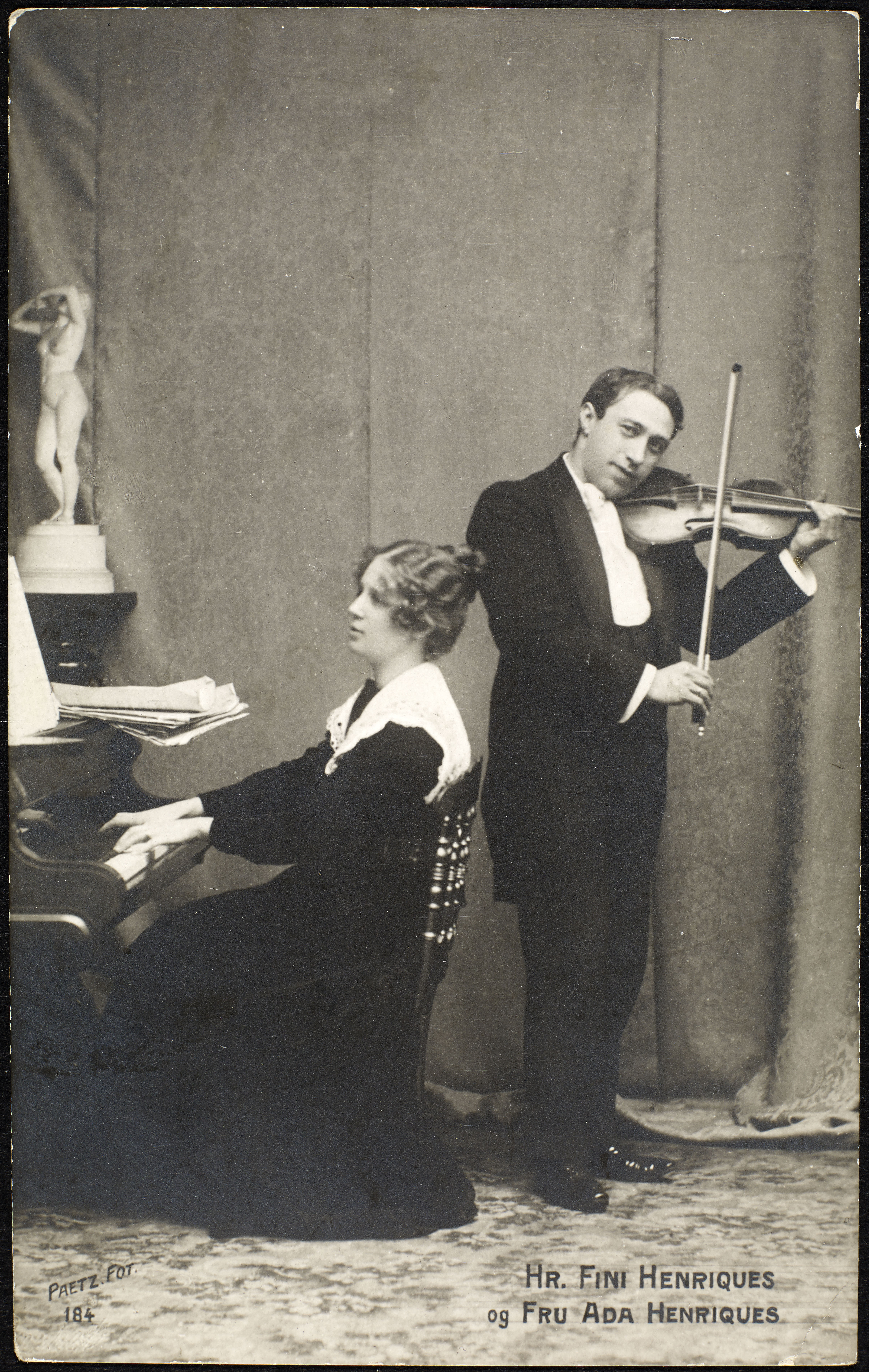 Fini Henriques (1867-1940) and Adda Henriques (1872-1931) Photo dated 1891-95 1980-280_47